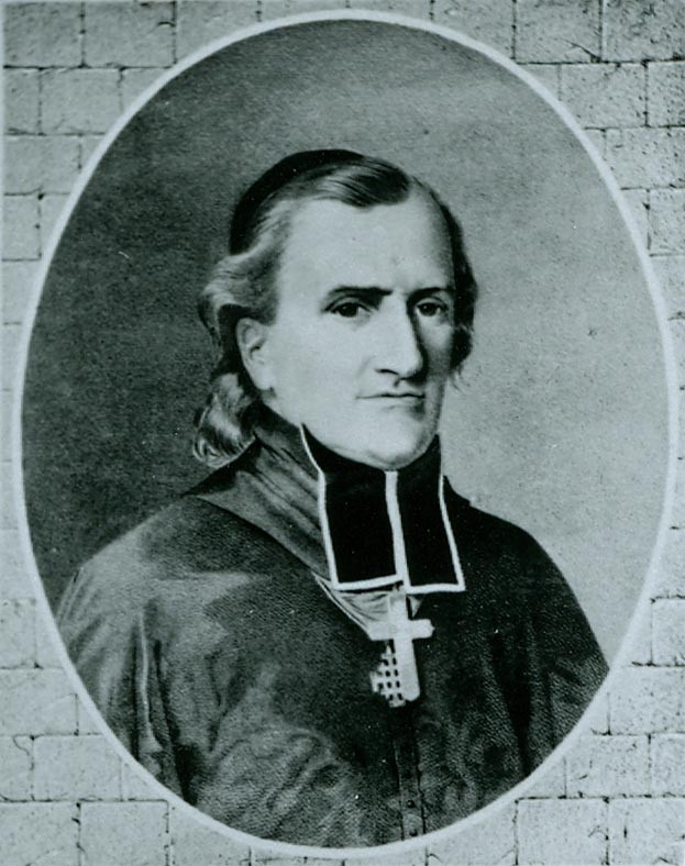 Charles-Auguste-Marie-Joseph de Forbin-Janson (1785-1844), Bischof von Nancy